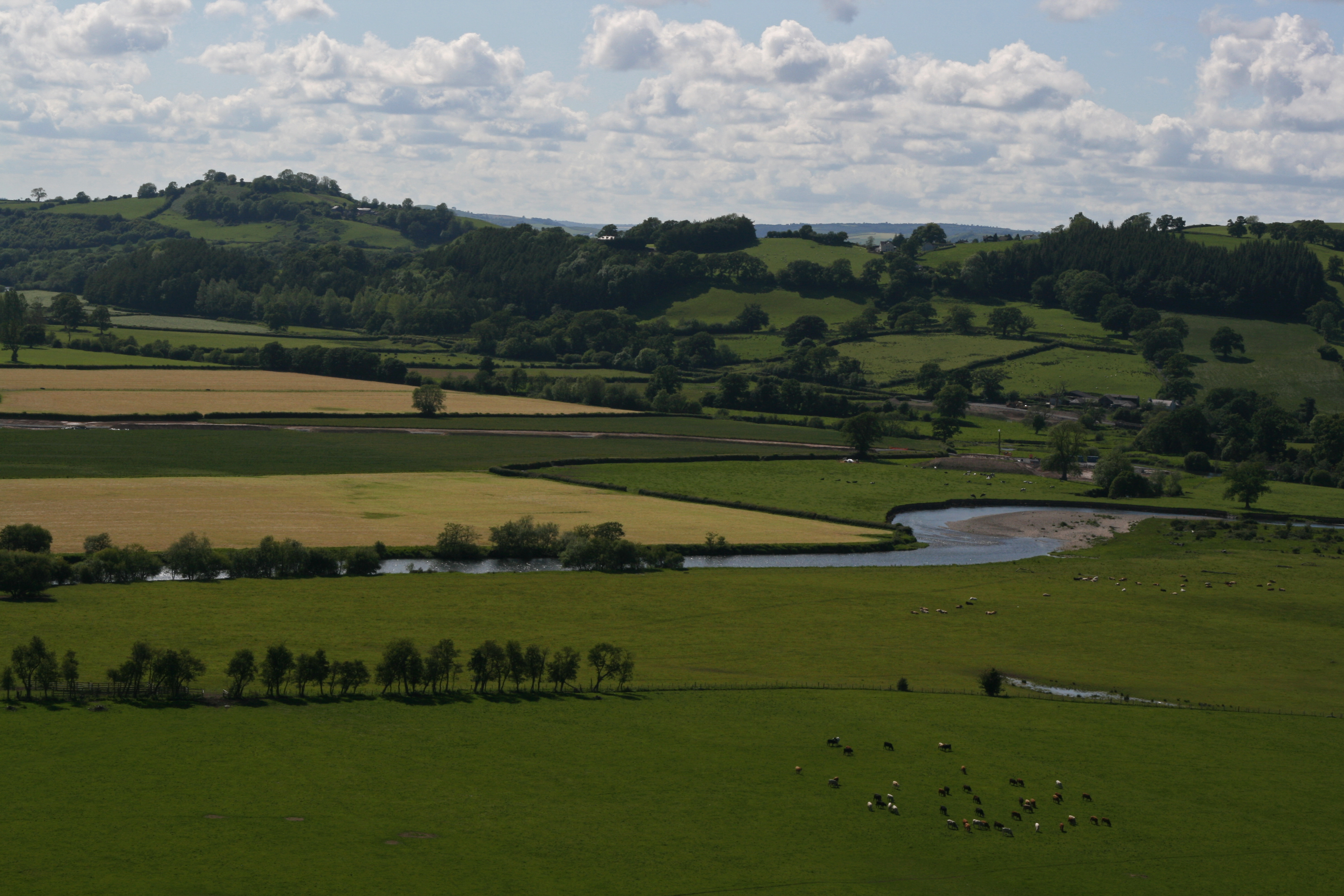 A view from Dinefwr Castle in Wales. Taken by me in May 2007